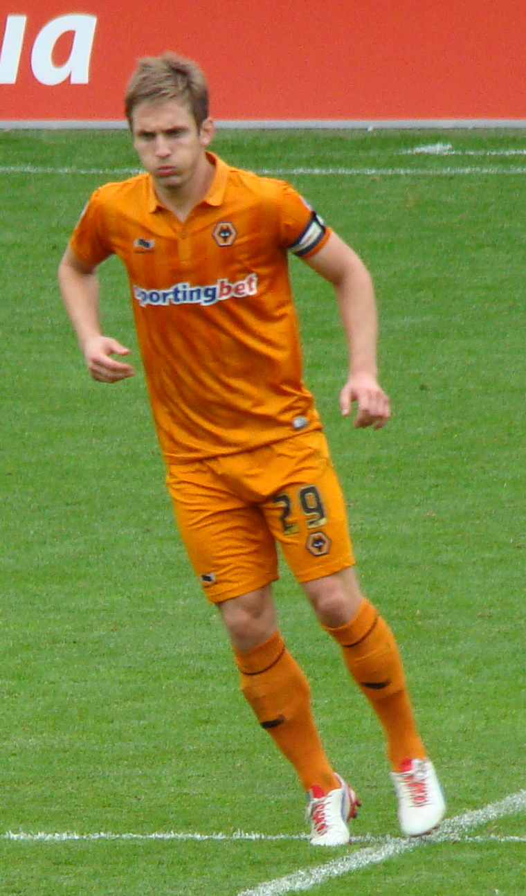 02/09/12 Cardiff City v Wolves, Championship, Cardiff City Stadium, Cardiff, Wales